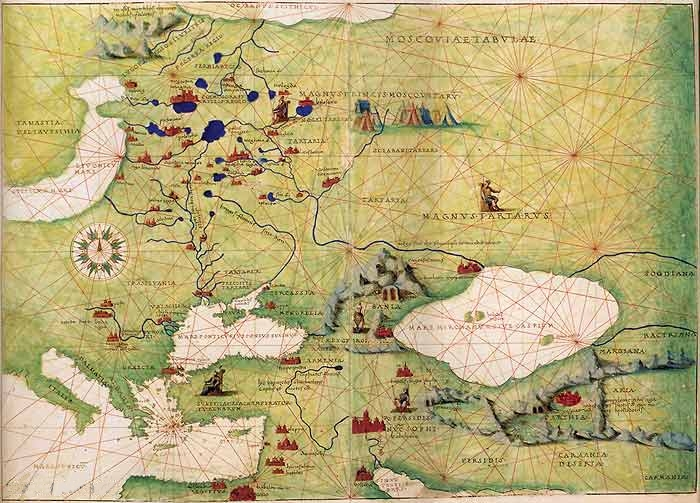 Russia, Tartaria and part of Europe and Asia, atlas of Battista Agnese (d. 1564)